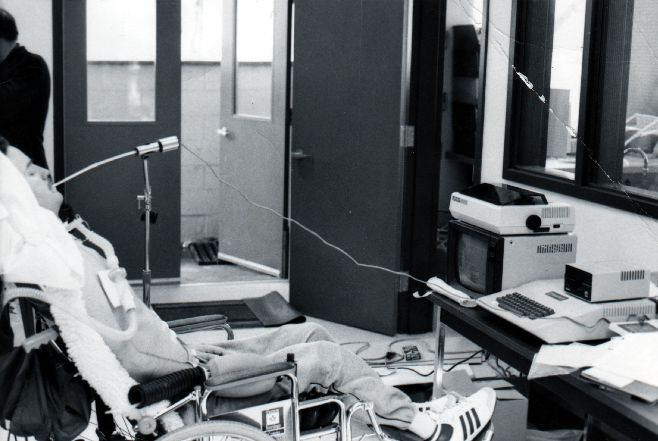 Neil Squire at Computer